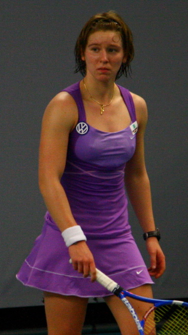 An-Sophie Mestach at the 2010 Telenet Open